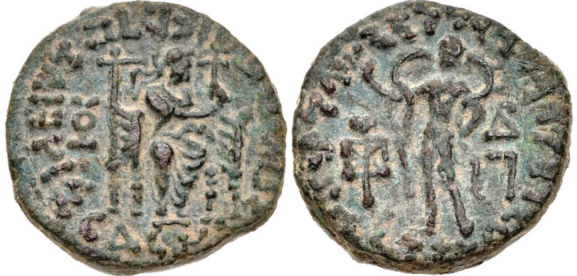 Gondophares-Sases Circa AD 20-46 King enthroned slightly right, raising hand; tamhga to left Rev Male figure, wearing billowing veil, benediction